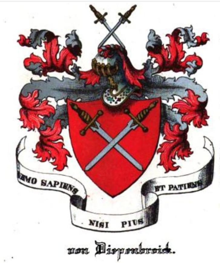 Coat of arms Diepenbroick